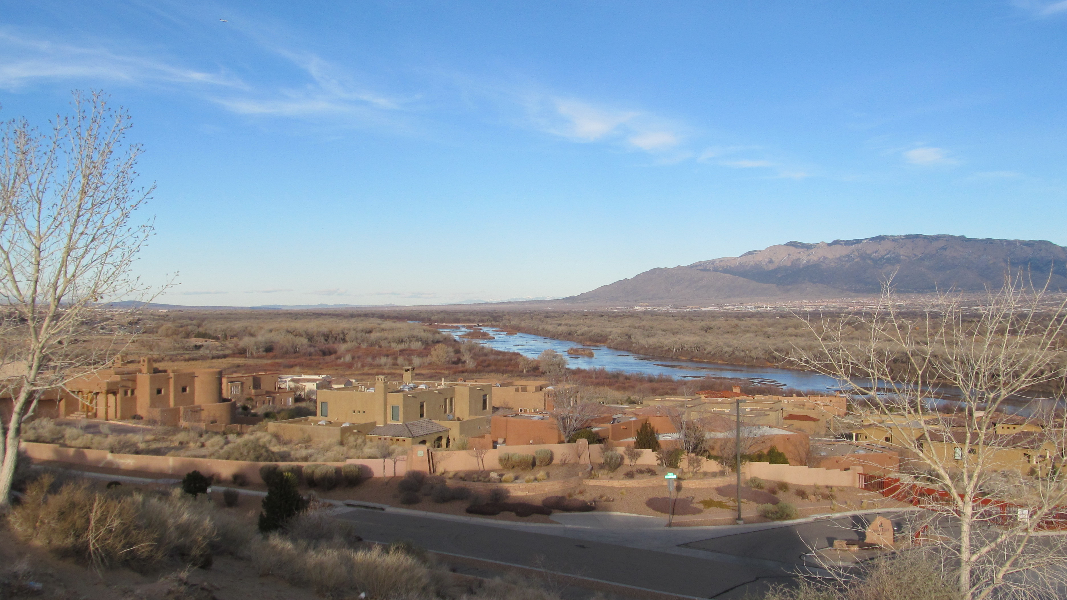 View of the Rio Grande Valley and the Rio Grande in Albuquerque — from the old University of Albuquerque campus, in New Mexico. The former Catholic university campus, on Albuquerque's westside, now houses St. Pius X High School.